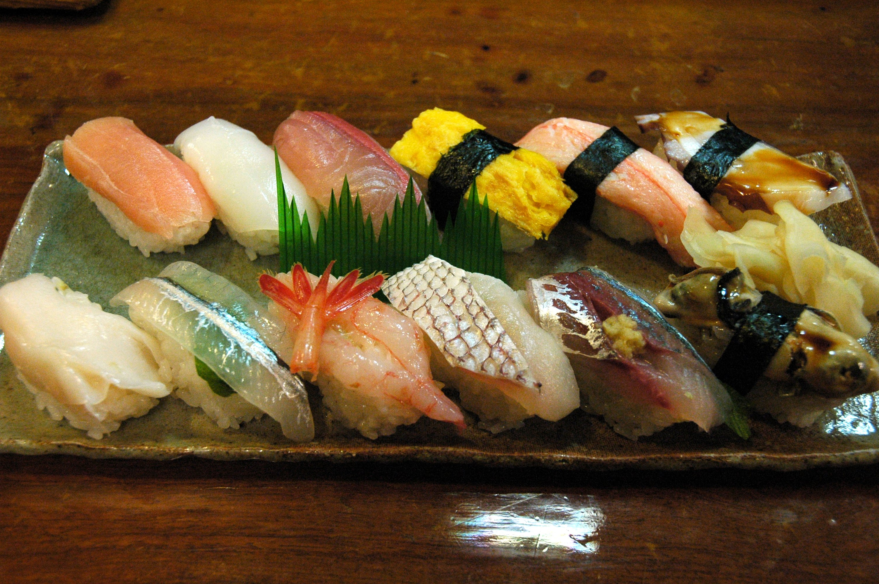 Shiki-gentei-nigiri (四季限定にぎり) at Hebi-no-me Sushi -- by jpatokal Top from left: salmon (shake), squid (ika), amberjack (hamachi), egg (tamago), crab (kani), ark shell (akagai) Bottom from left: scallop (hotate), halfbeak (sayori), shrimp (amaebi), mackerel (saba), sardine, oyster (kaki), ginger (gari). Please correct description if you think any of those are identified wrong =).